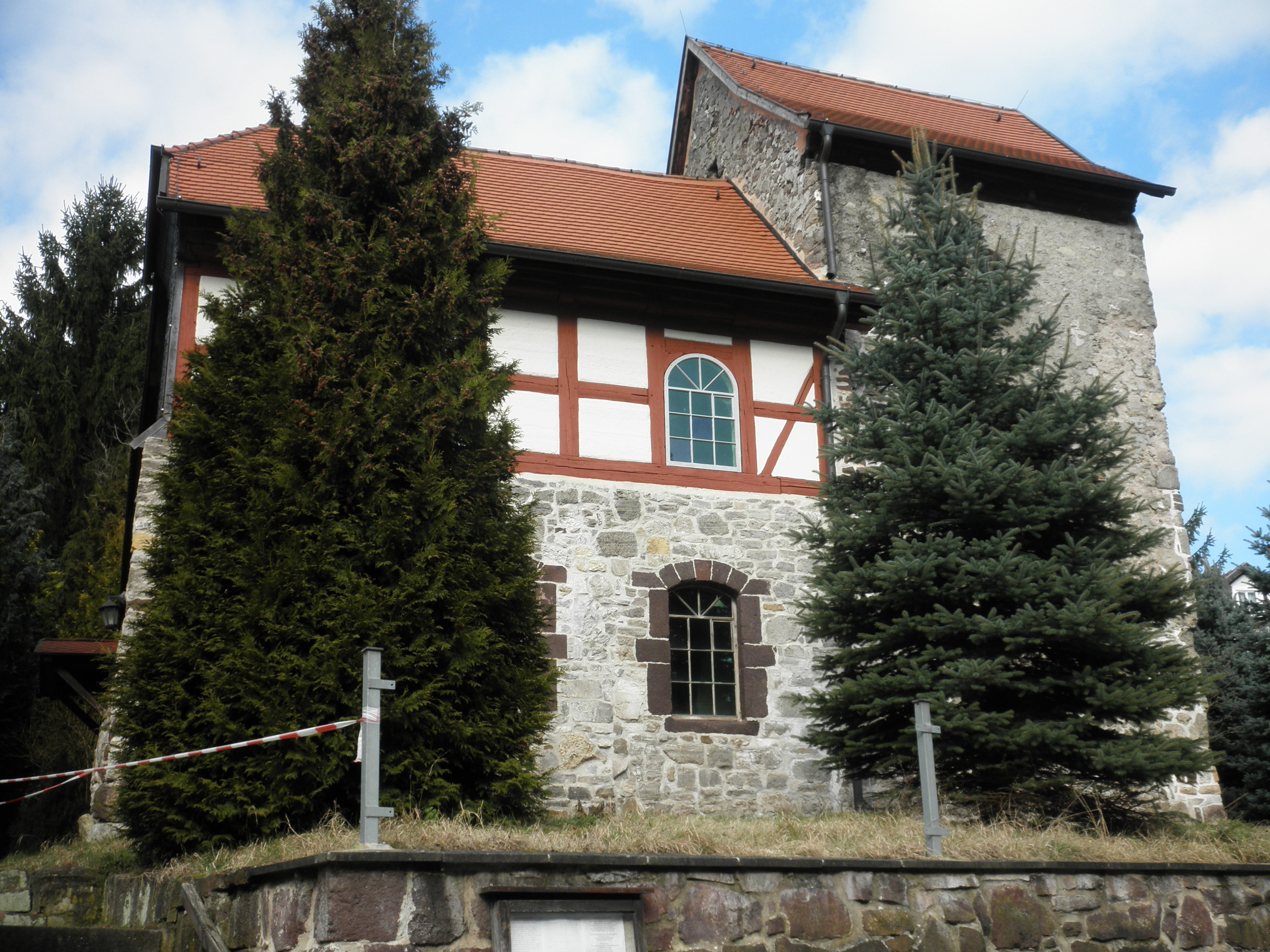 Church in Rüdigsdorf (Nordhausen) in Thuringia